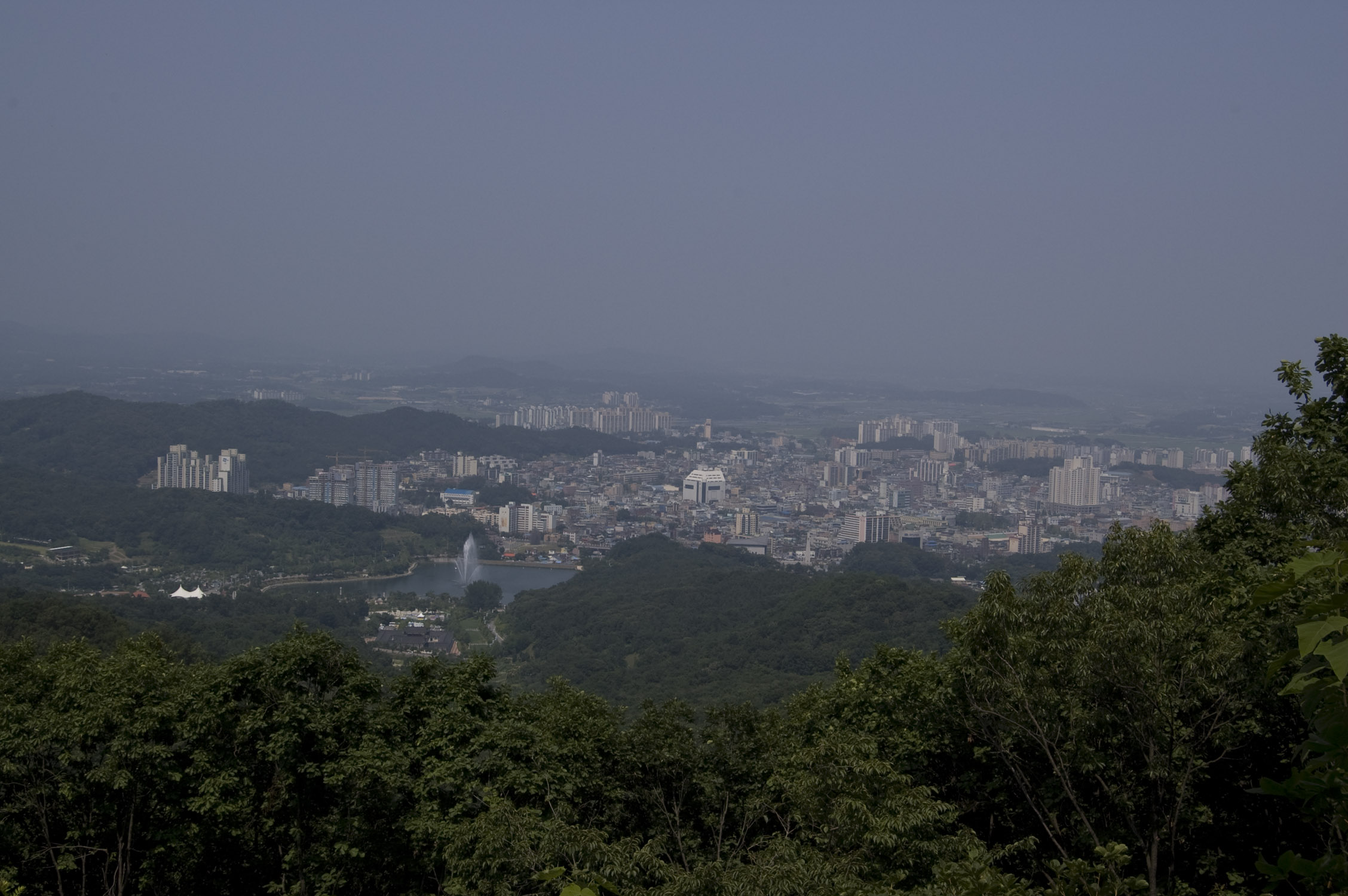 Seolbong Park, and Icheon city.